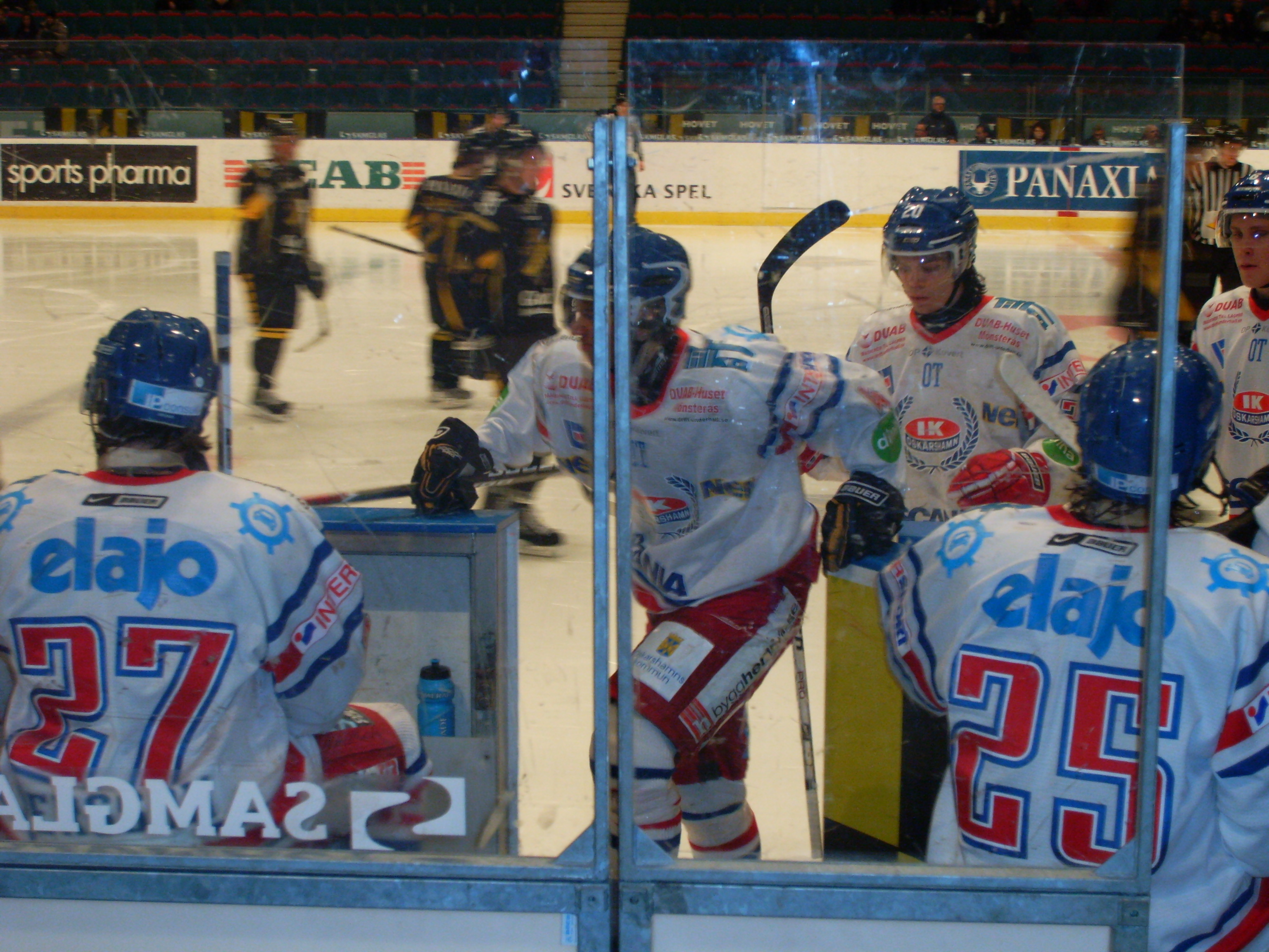 Ice hockey players from IK Oskarshamn, Sweden during the Hockeyallsvenskan game AIK-IK Oskarshamn (7-1) at Johanneshovs isstadion.